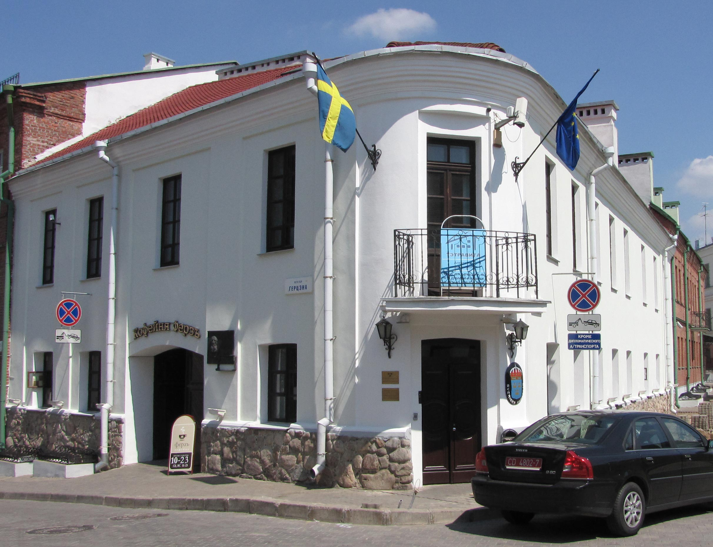 The Swedish embassy in Minsk, Belarus.